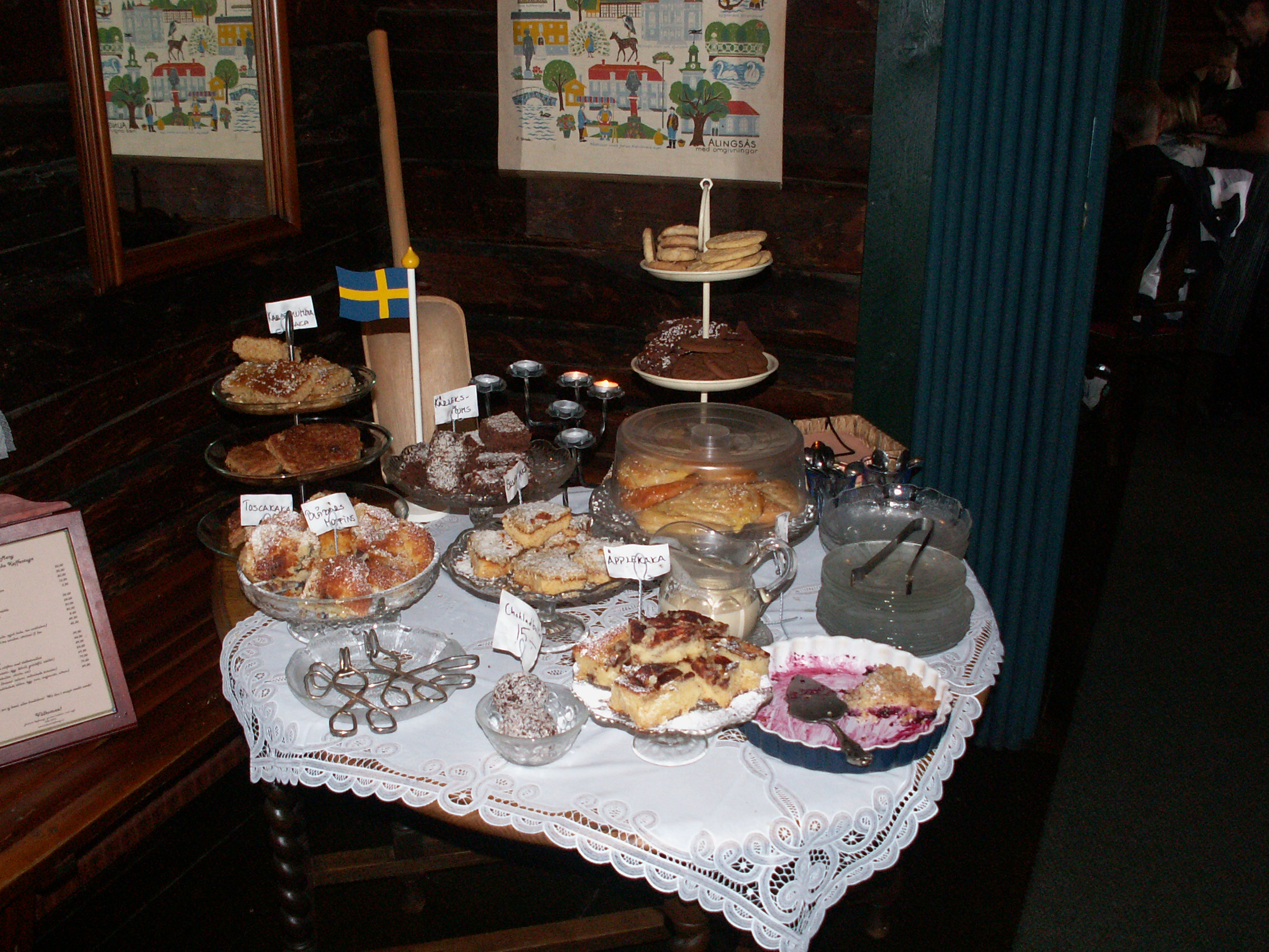 The Buffet